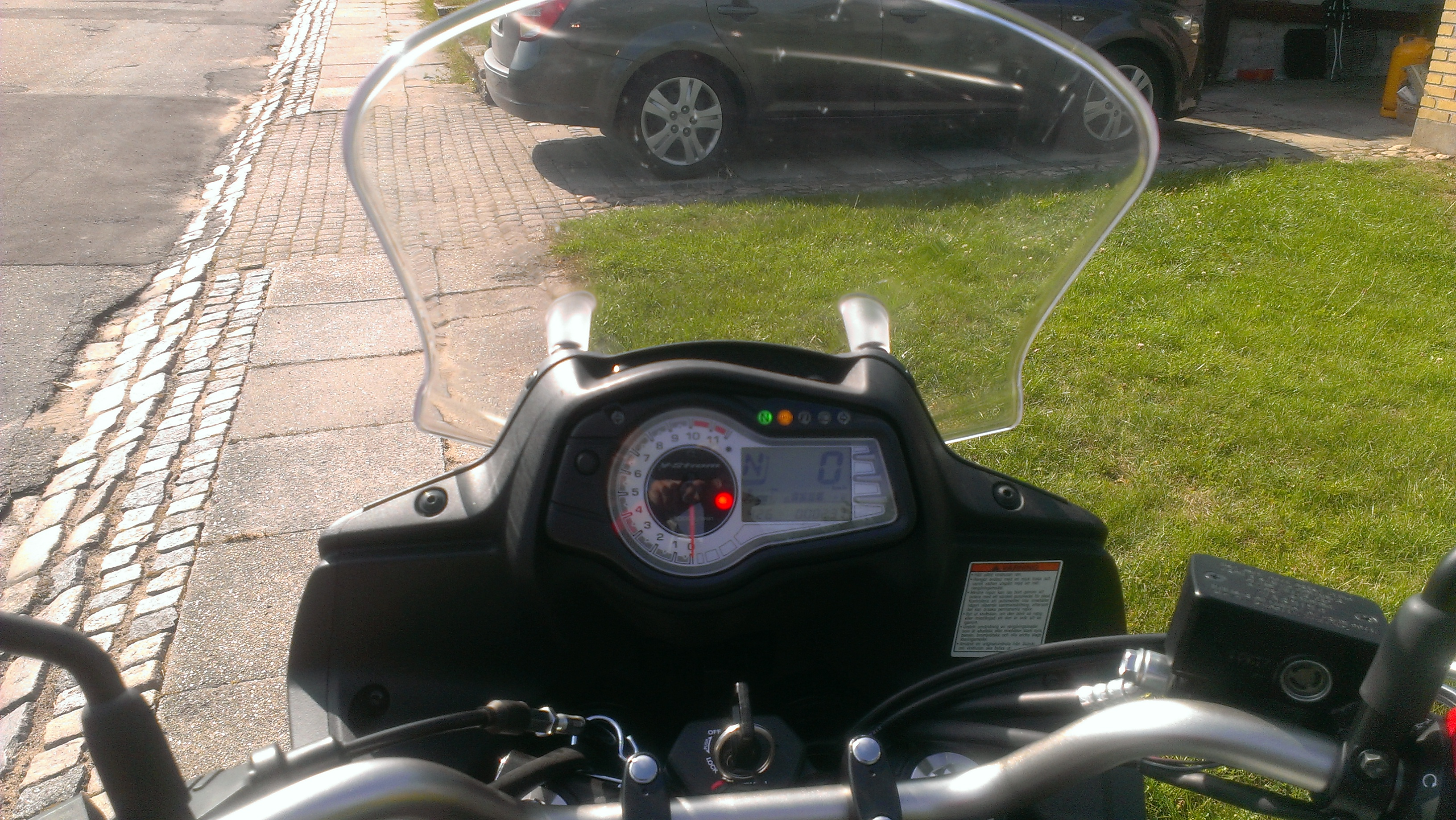 DL650AL2 Instrumentation